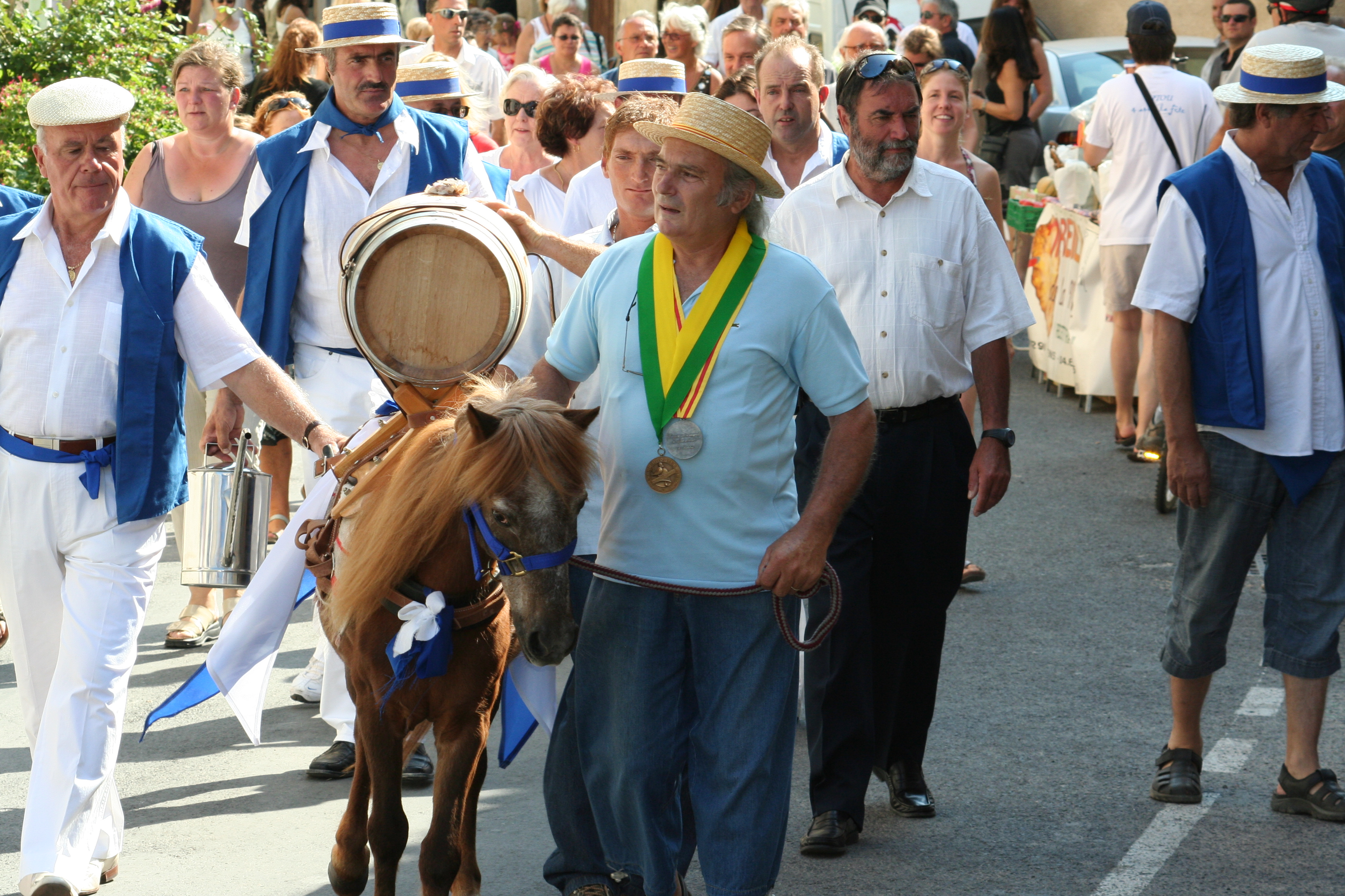 Vine growers feast Fitou